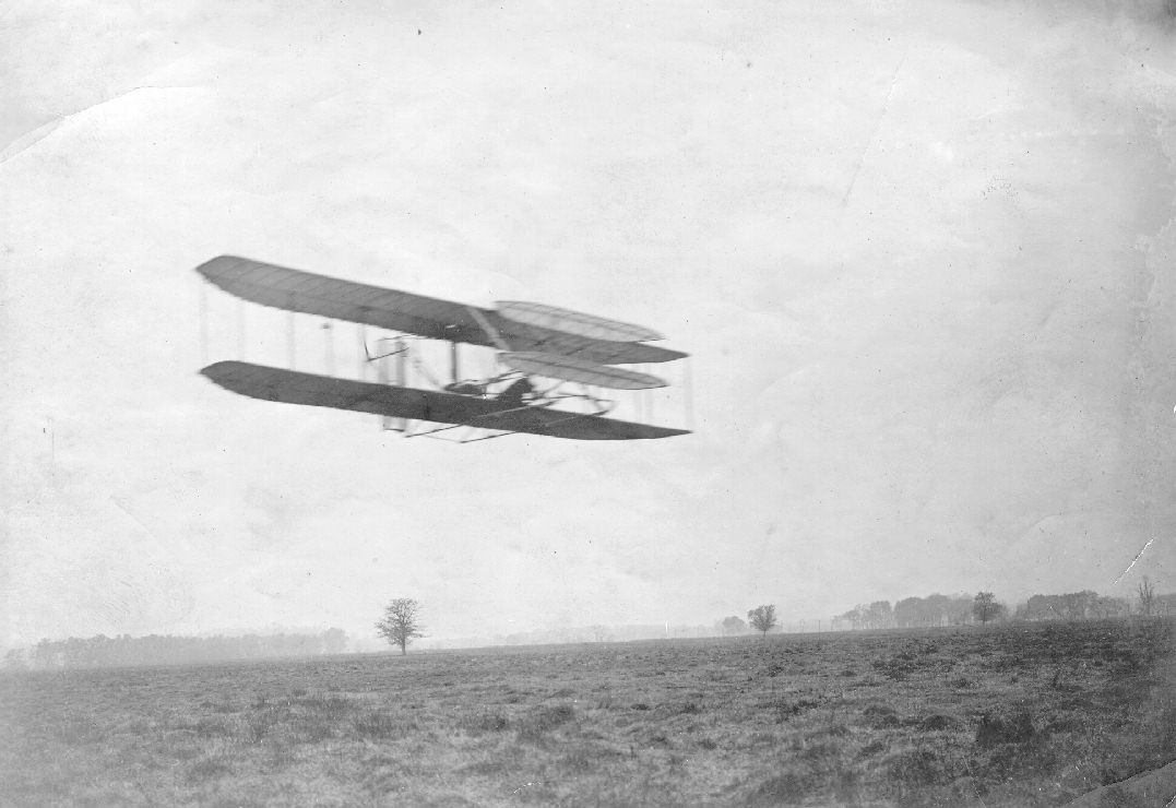 Flight 82: Wilbur piloting at a considerable height, flying a distance of 2 3/4 miles in 5 minutes and 4 seconds, almost four circles of the field at Huffman Prairie, the best and longest flight of the year; Dayton, Ohio